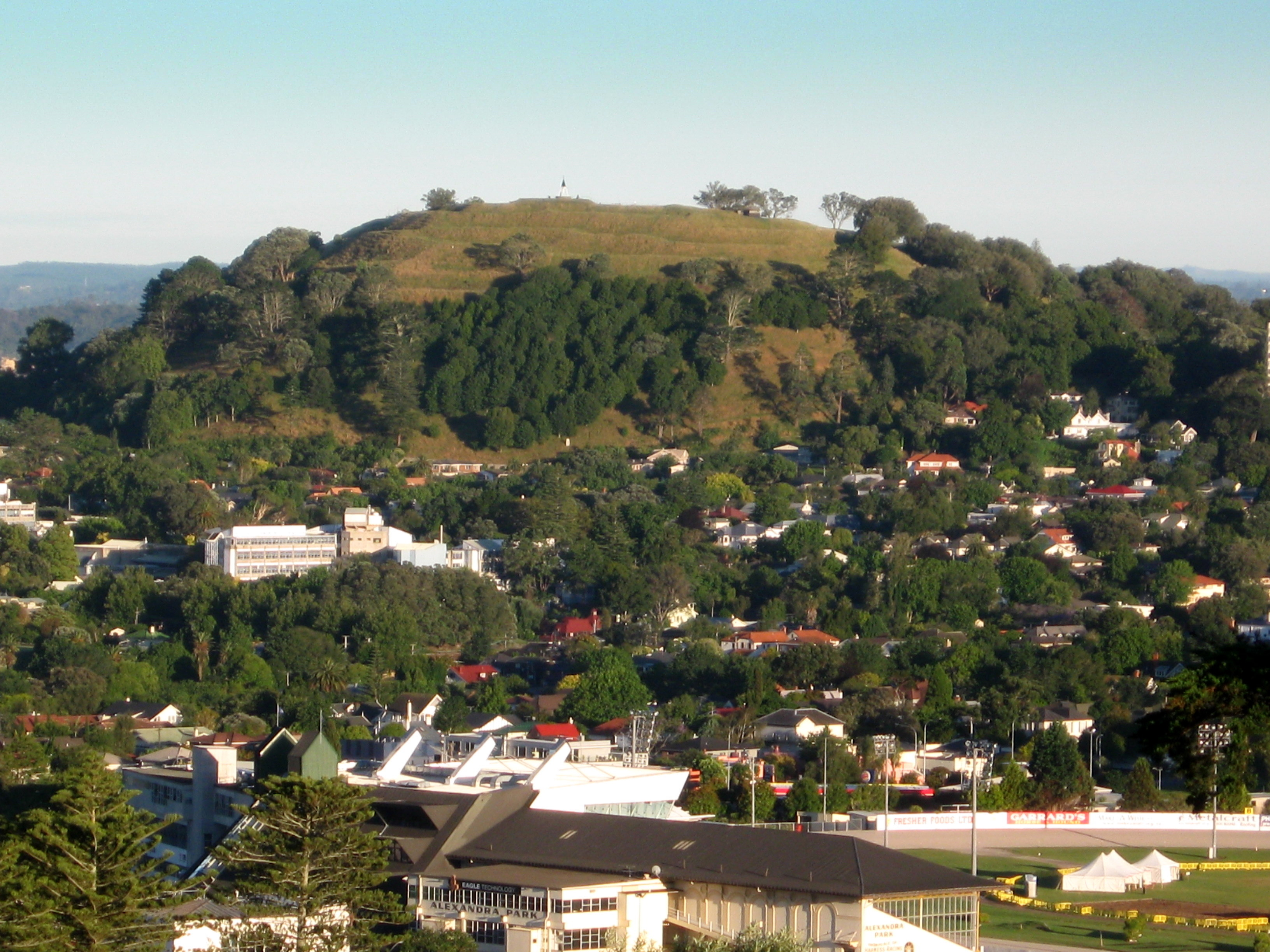 Mt Eden viewed from One Tree Hill